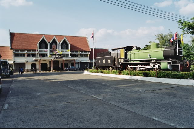 ubol ratchatani station Thailand